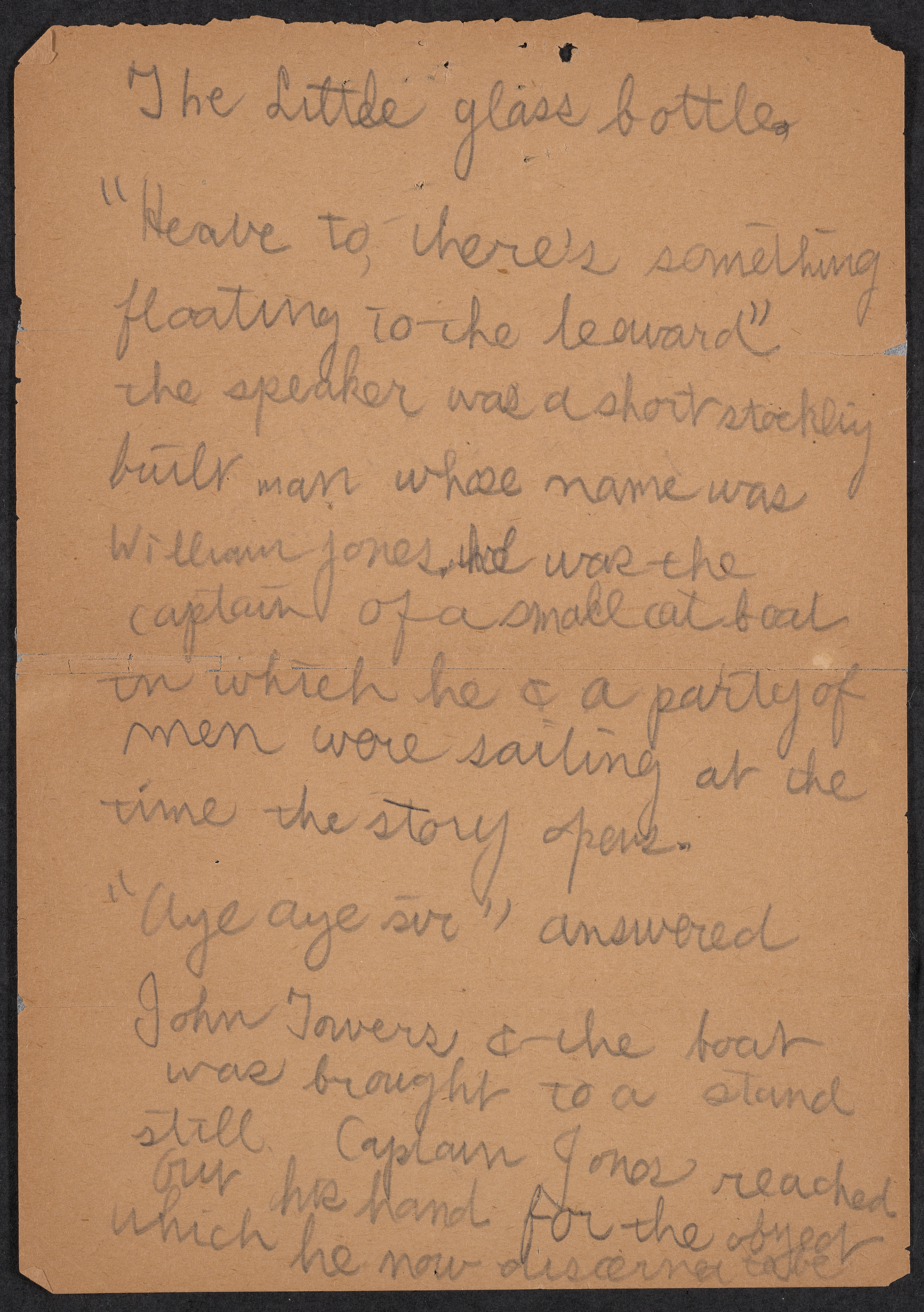 First page of the manuscript The Little Glass Bottle.